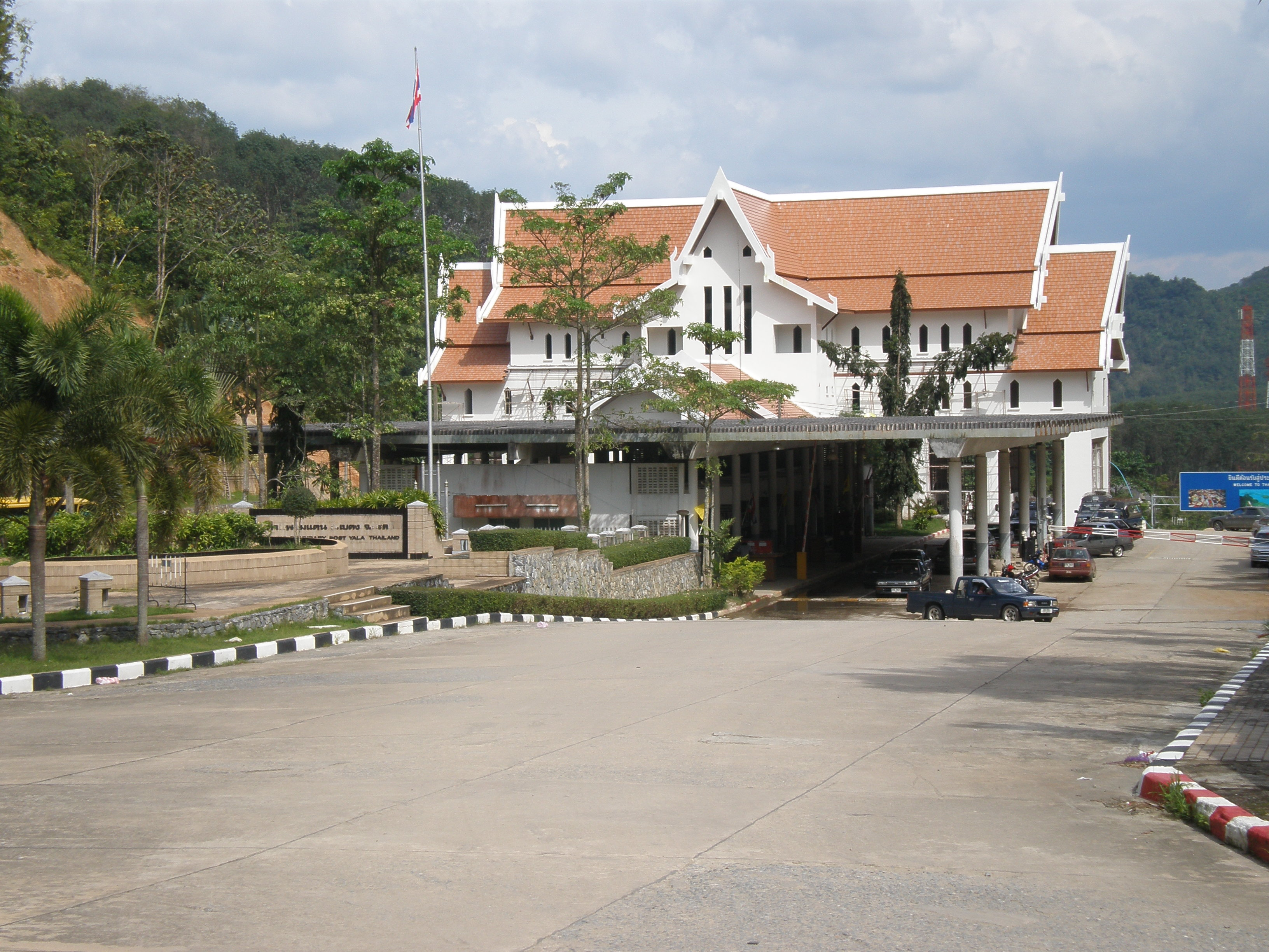 Author: Fannykong